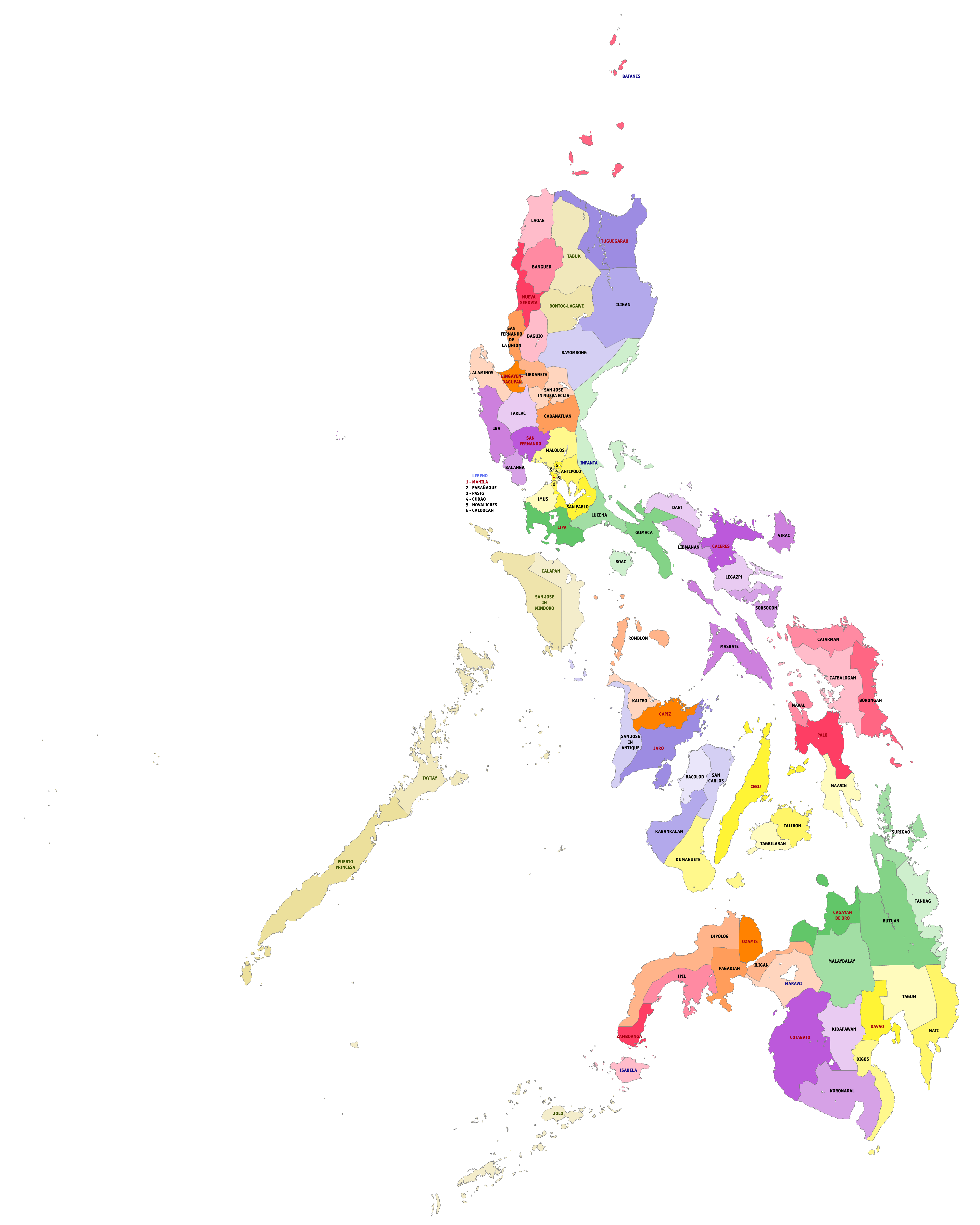 Geographical Latin rite Roman Catholic ecclesiastical provinces of the Philippines